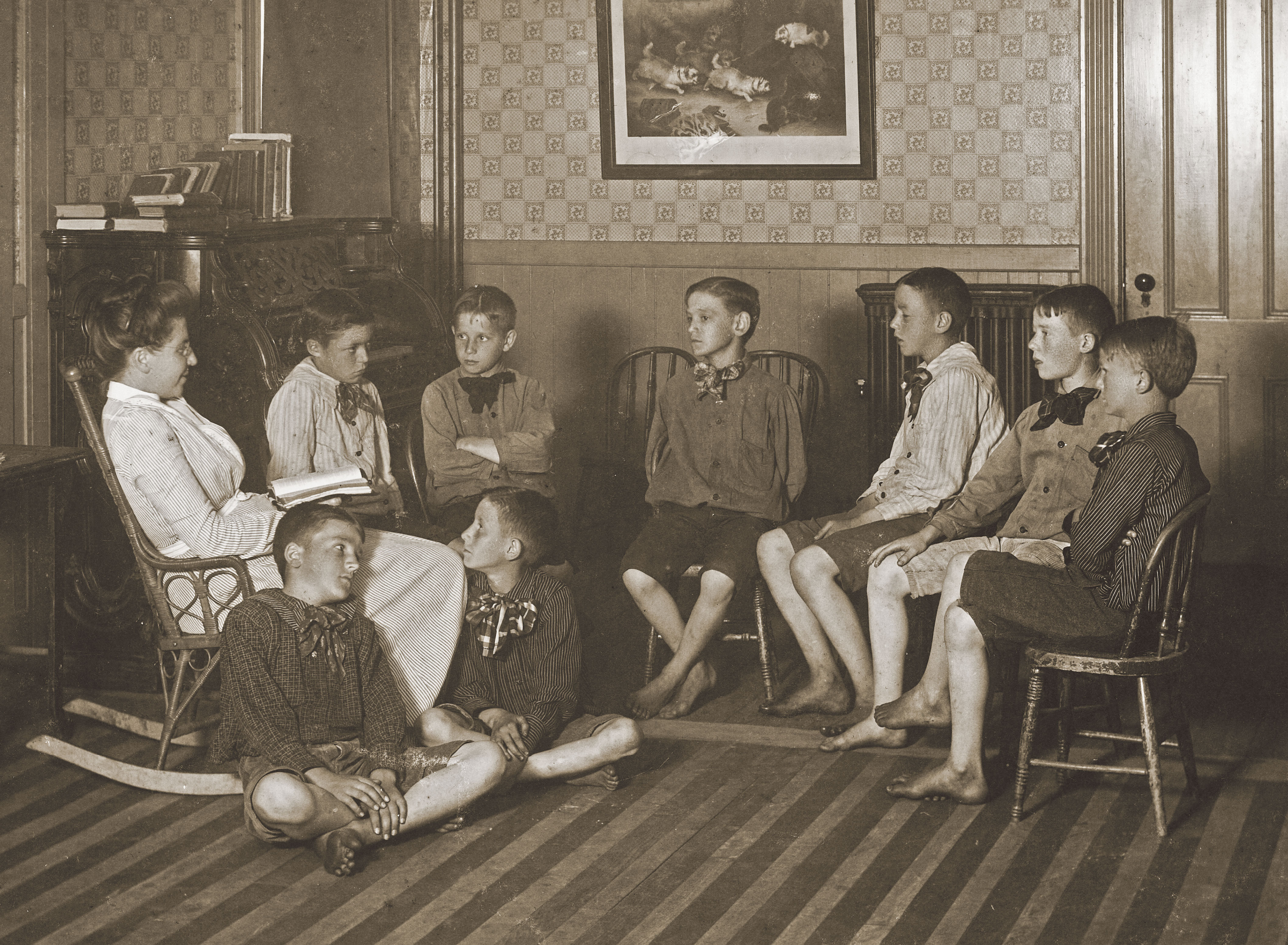 1900s Kurn Hattin Residential Scene